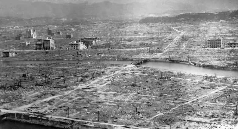 Hiroshima Aftermath, cropped version